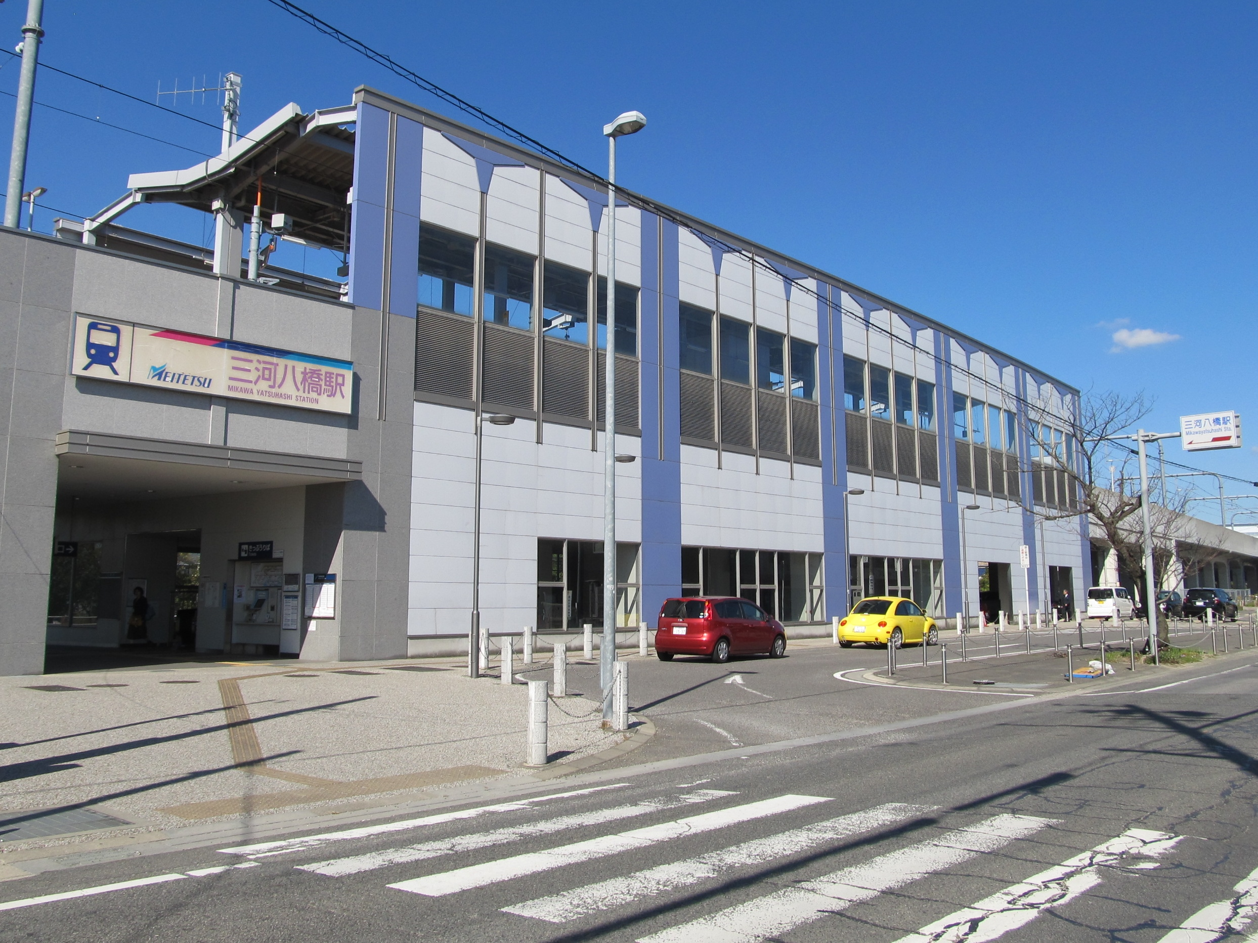 Nagoya Railroad Mikawa Line Mikawa Yatsuhashi Station East gate